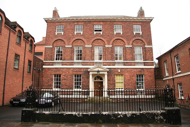 Castlegate House Handsome house in Castlegate by John Carr in 1759